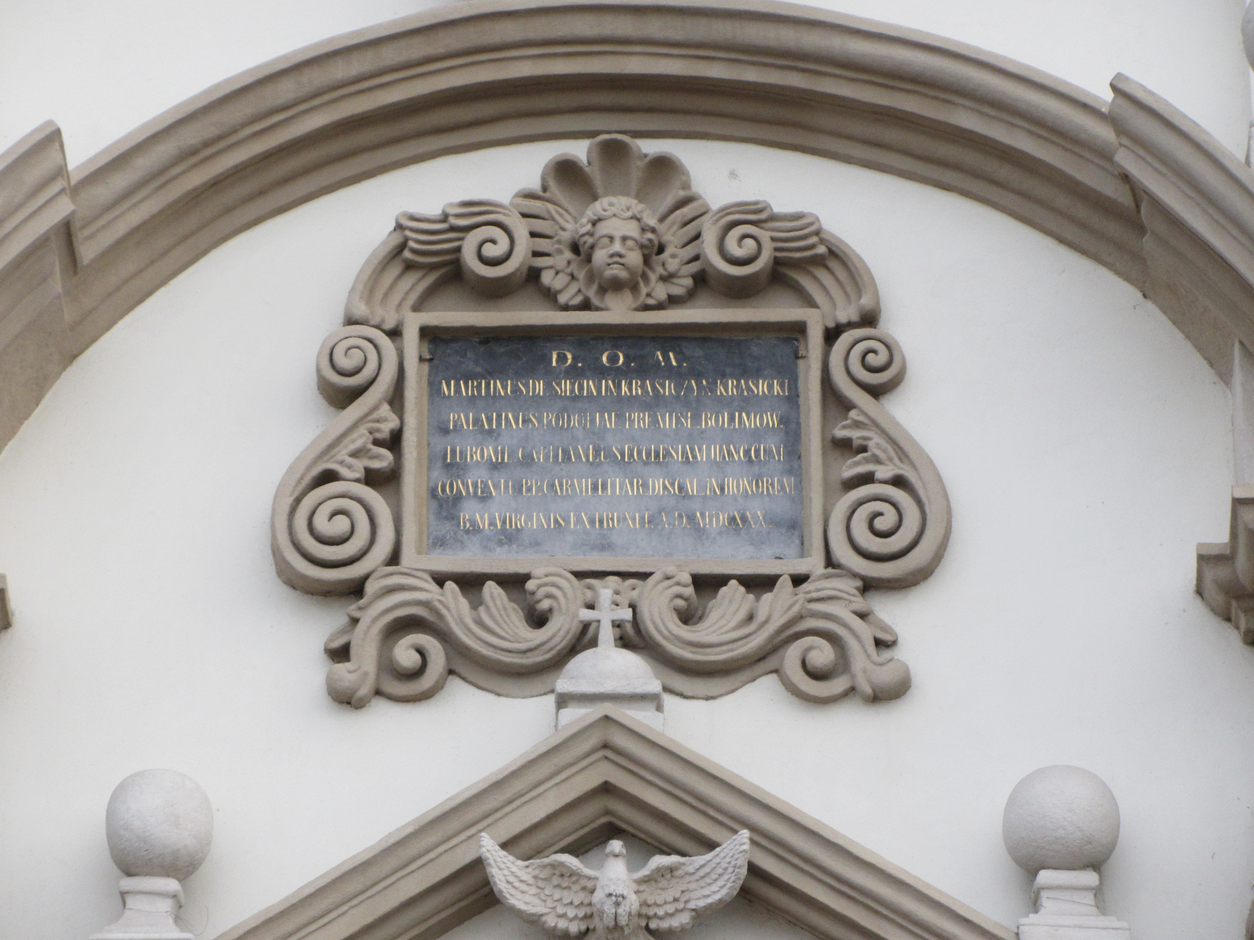 Tablica pamiątkowa nad portalem głównym z nazwiskiem fundatora - Marcina Krasickiego